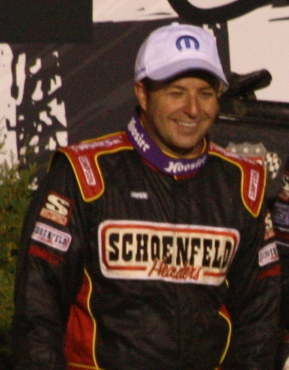 Driver Tracy Hines on the podium after his third place finish at a Angell Park Speedway USAC Midget car show. He has raced in NASCAR.